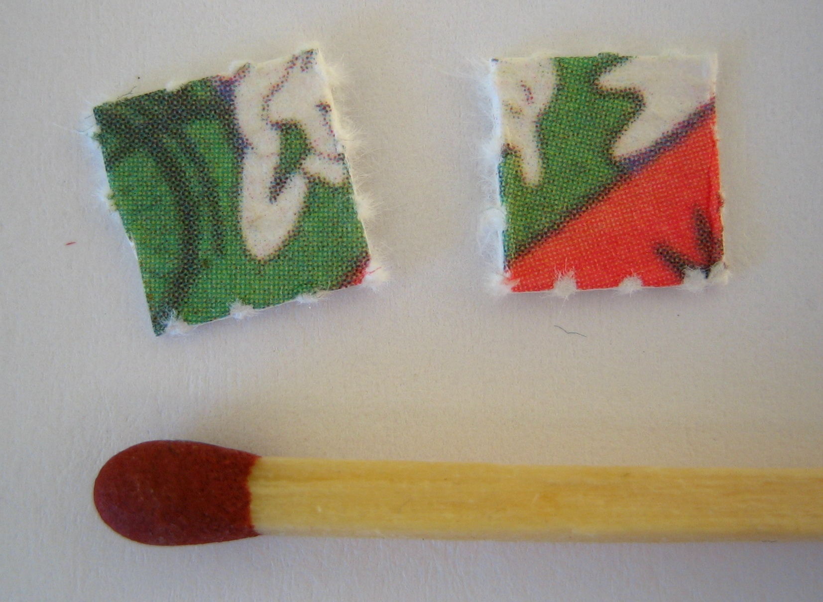 LSD blotter with match for size comparison.